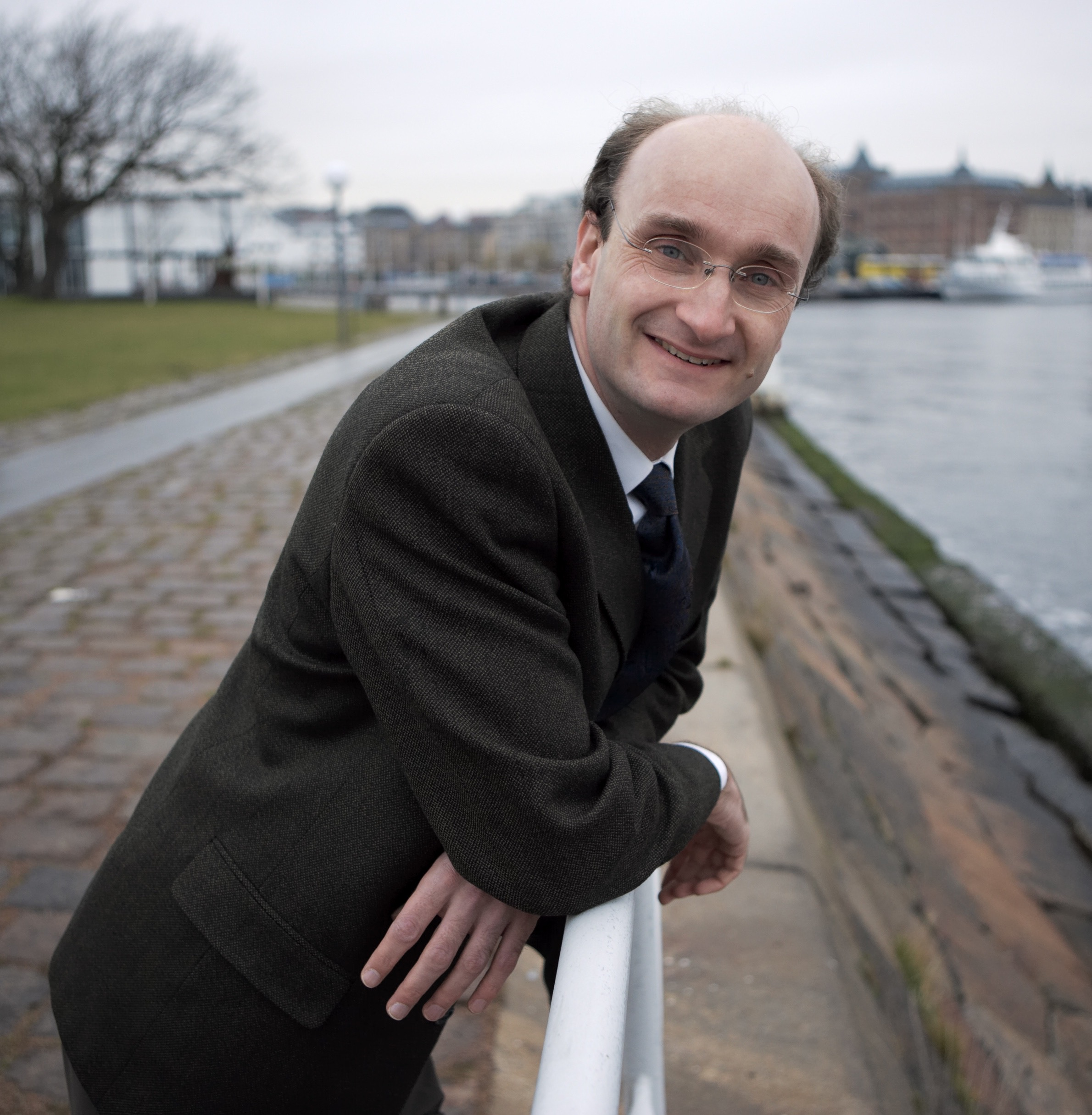 Andrew Manze incoming Chief Conductor of the Helsingborg Symphony Orchestra